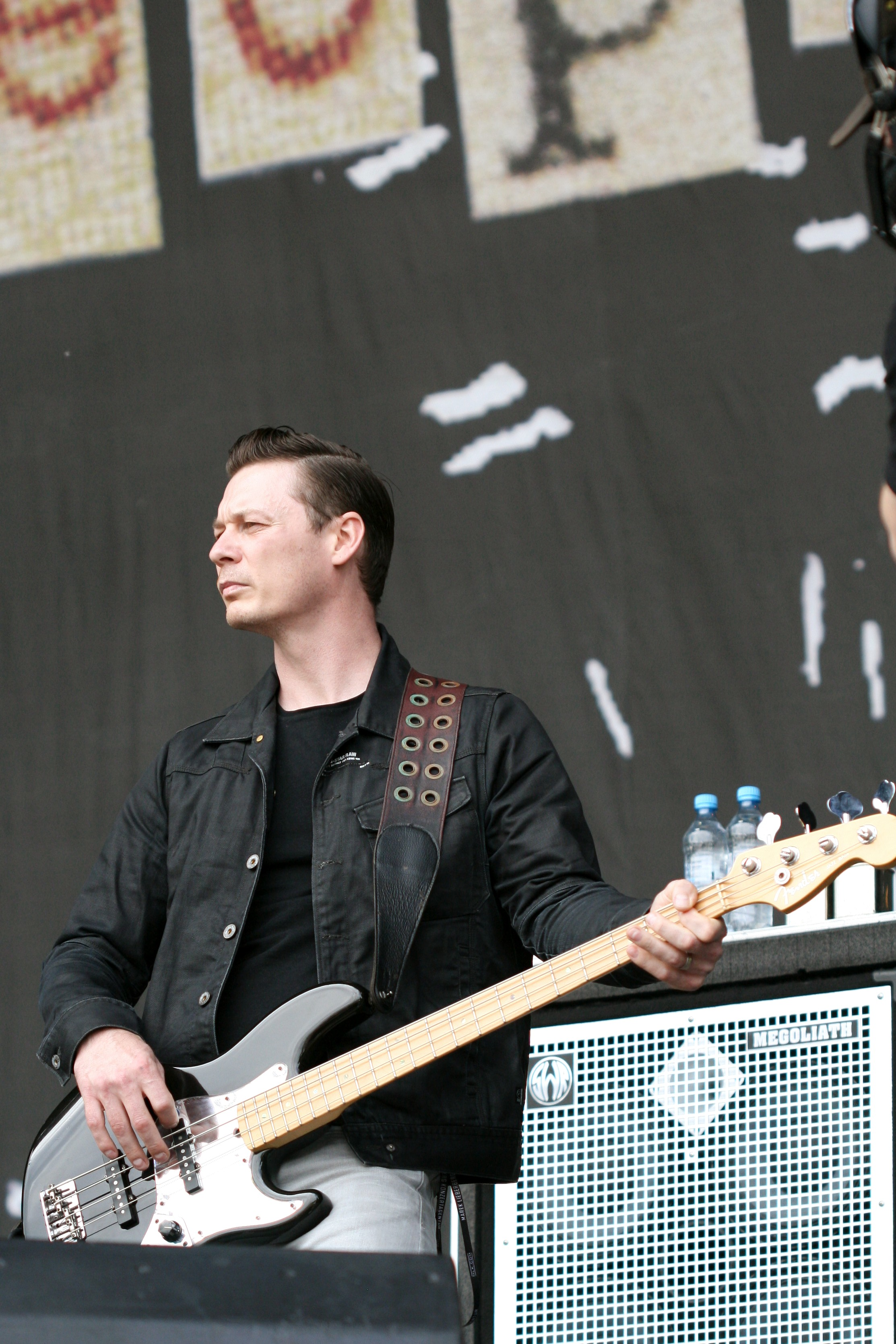 Richard Jones, bass guitarist of the band Stereophonics, stands on the Alterna Stage of Rock im Park-Festival 2013. Festivalsommer This photo was created with the support of donations to Wikimedia Deutschland in the context of the CPB project "Festival Summer".